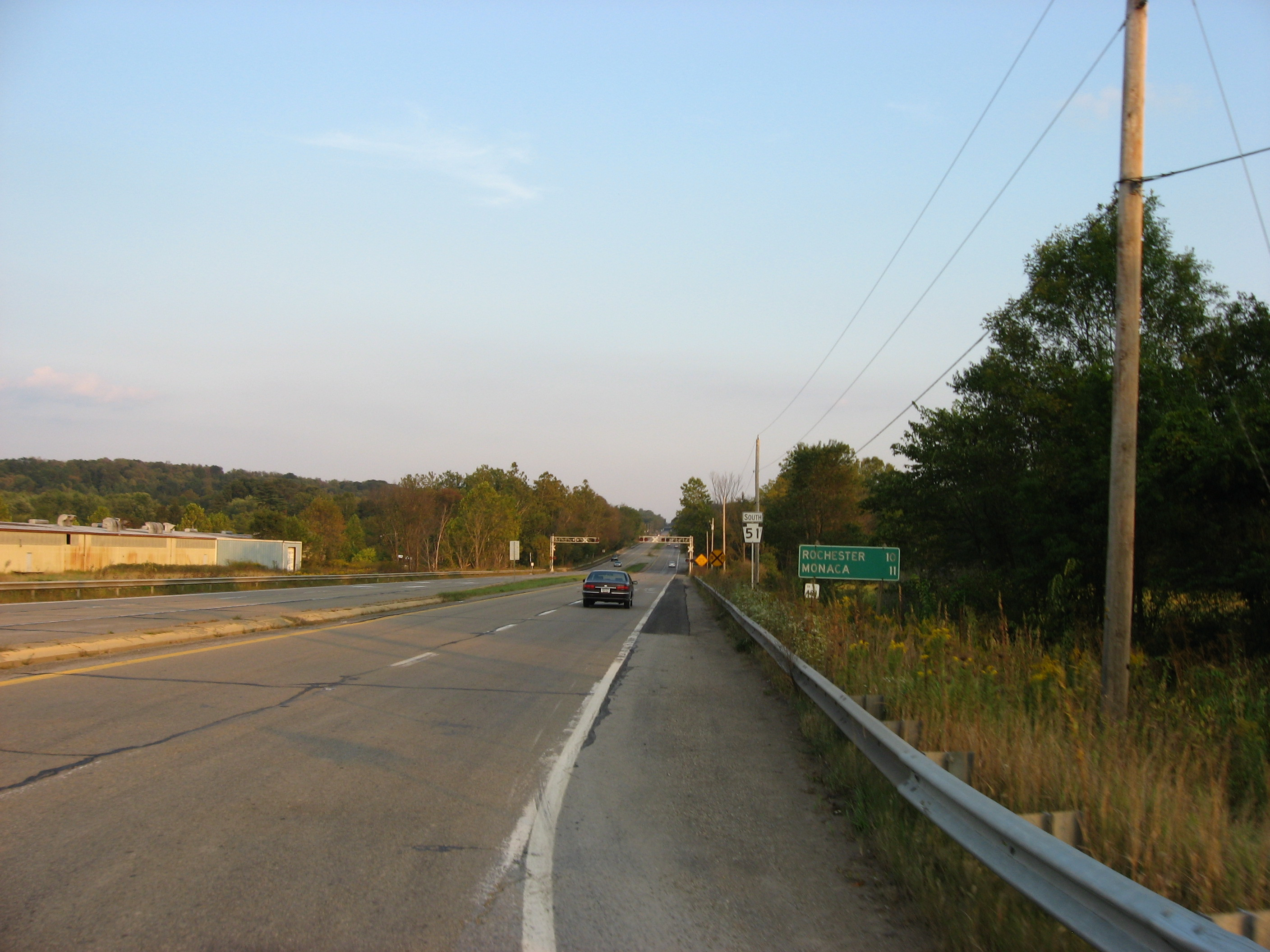 View along Pennsylvania Route 51 in southwestern Darlington Township, Beaver County, Pennsylvania, United States, at the intersection with Pennsylvania Route 651 (Cannelton Road).